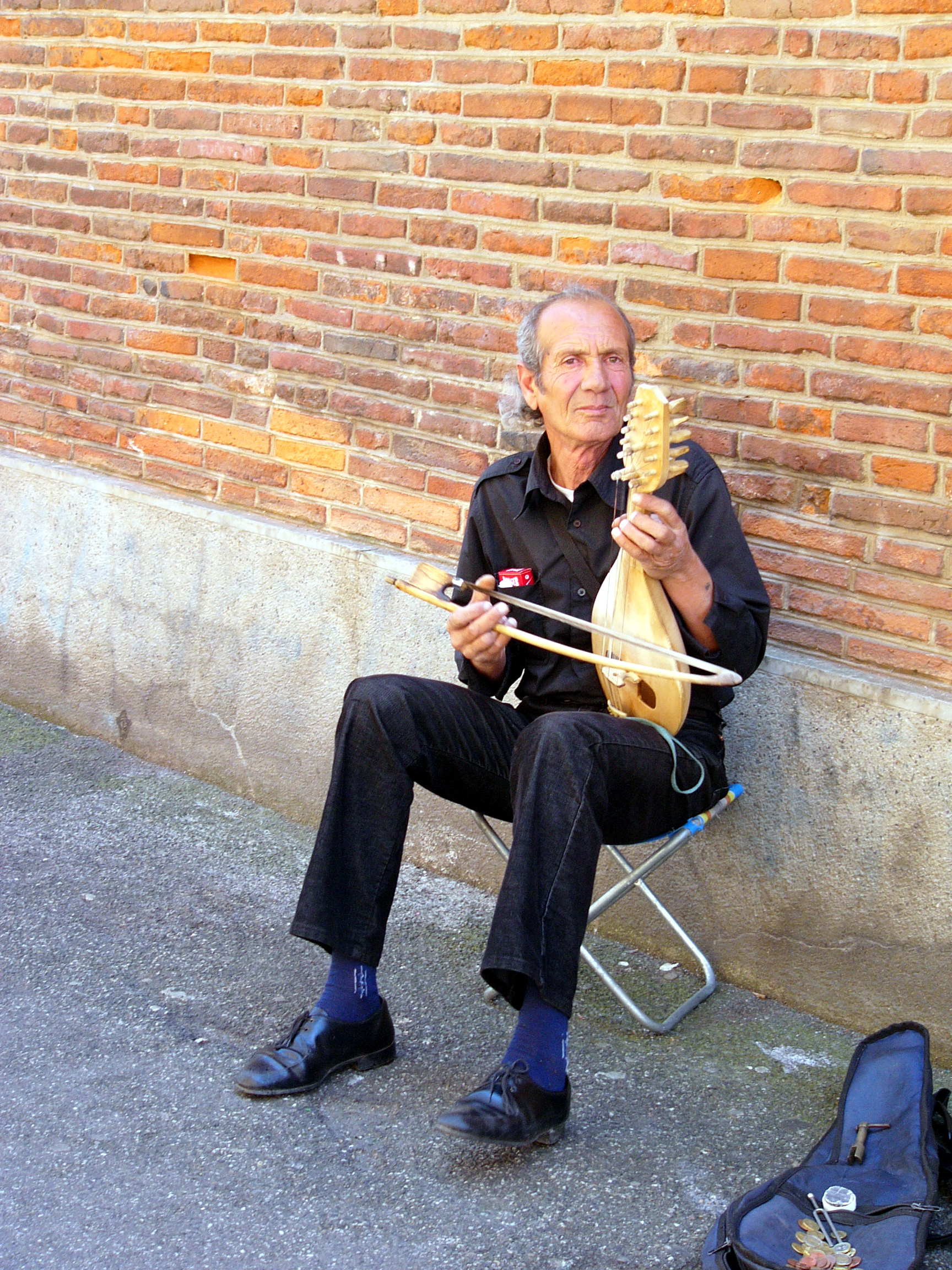 A street musician in Toulouse, France, playing a traditional Bulgarian instrument called a gadulka